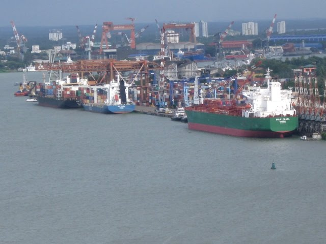 Kochi City-sizzling port-W.ISLAND, that's created by Lord Bristow